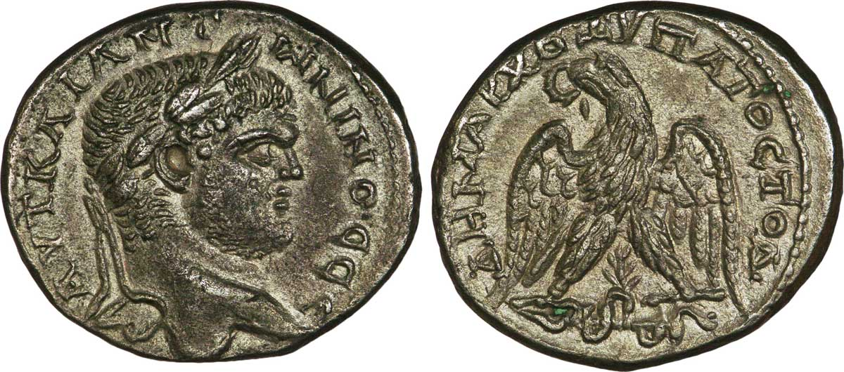 Monnaie frappée en la cité de Césarée